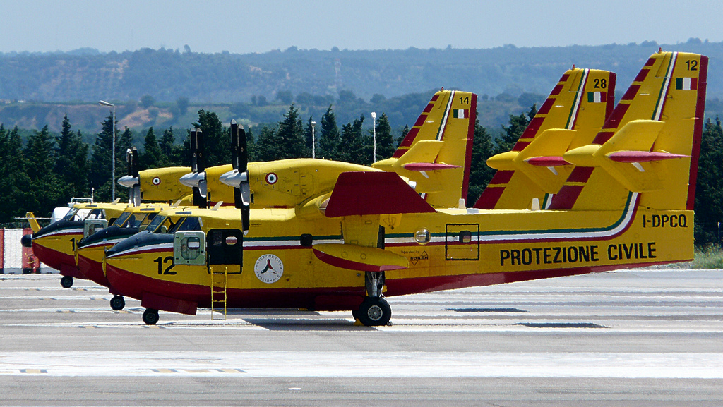 Drei Canadair CL-415 Löschflugzeuge des italienischen Zivilschutzes am Flughafen Lamezia Terme (LICA).